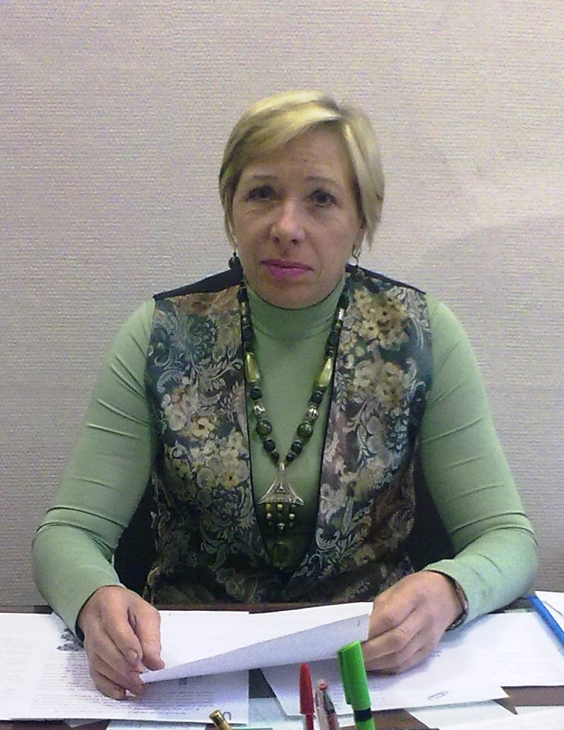 Former dean of the Pharmaceutical faculty, SPCPA, St. Petersburg, Russia